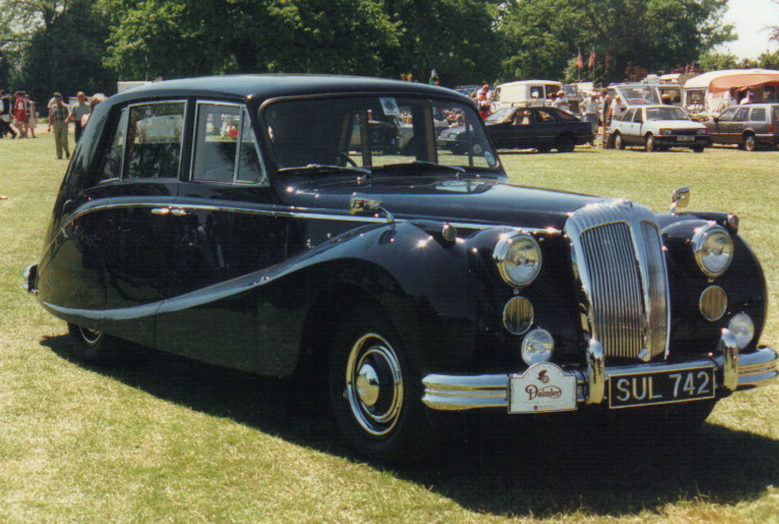 1956 Daimler Empress SUL 742 (DVLA) first registered 1 August 1956, 3468 cc at Stockwood Park, Luton Festival of Transport 1996